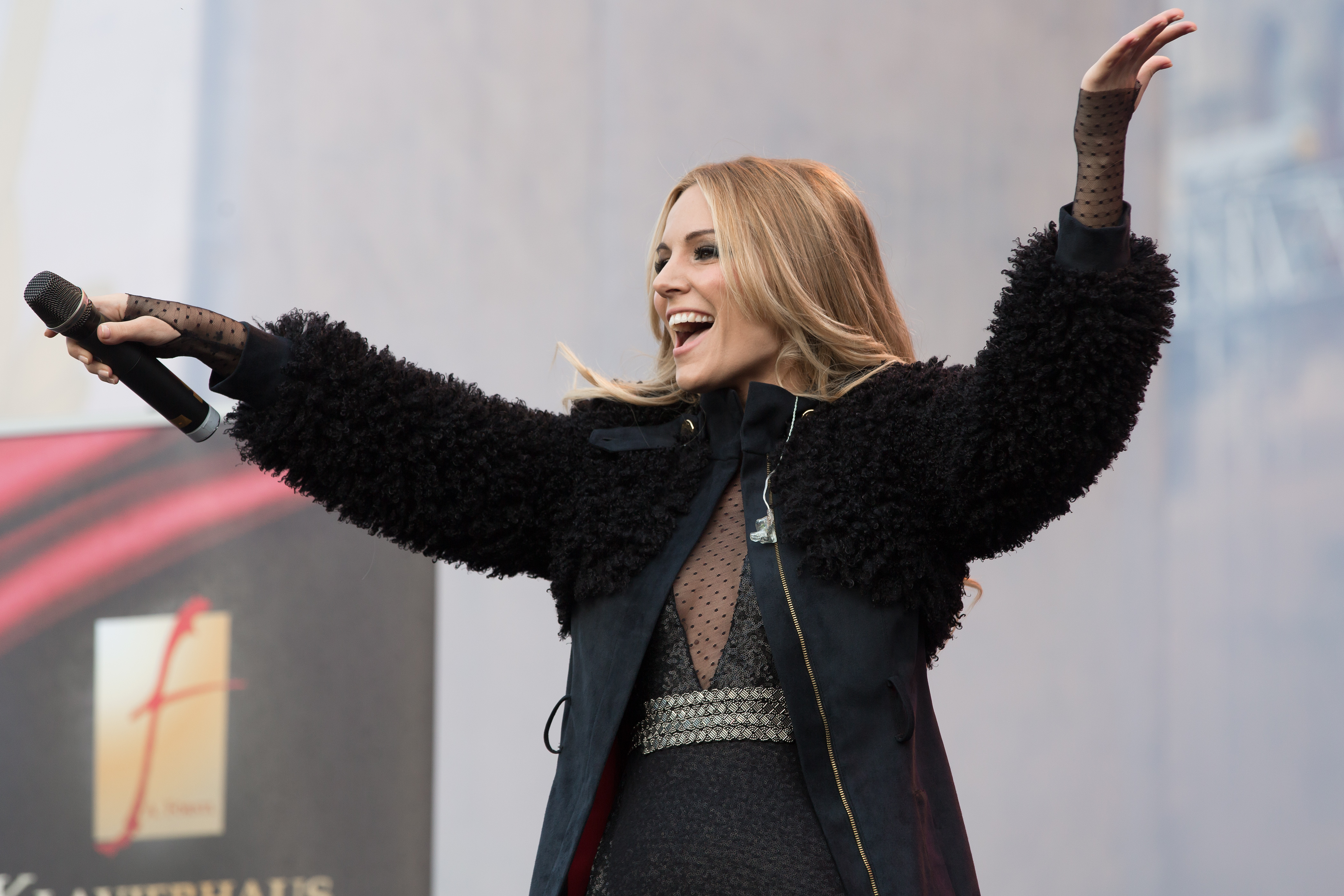 Edurne, Spains participant at the Eurovision Song Contest 2015, concert at Eurovision Village on Rathausplatz in Vienna, Austria.